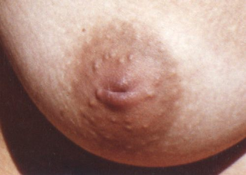 inverted nipple